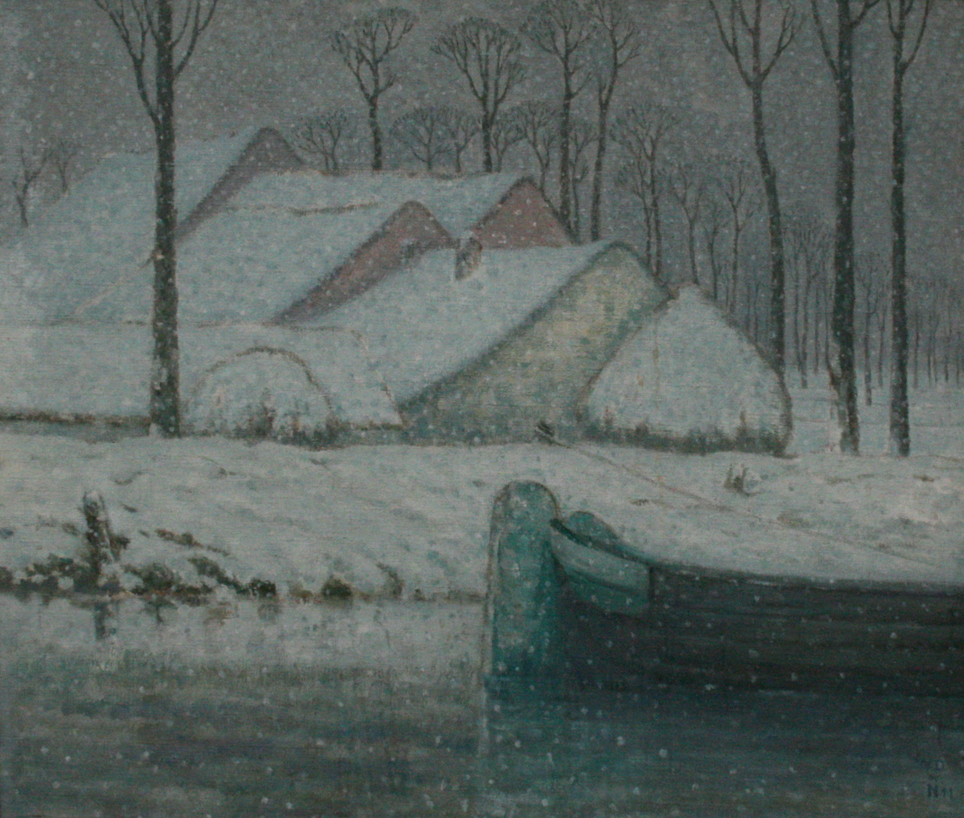 William Degouwe de Nuncques - Snowy landscape with barge